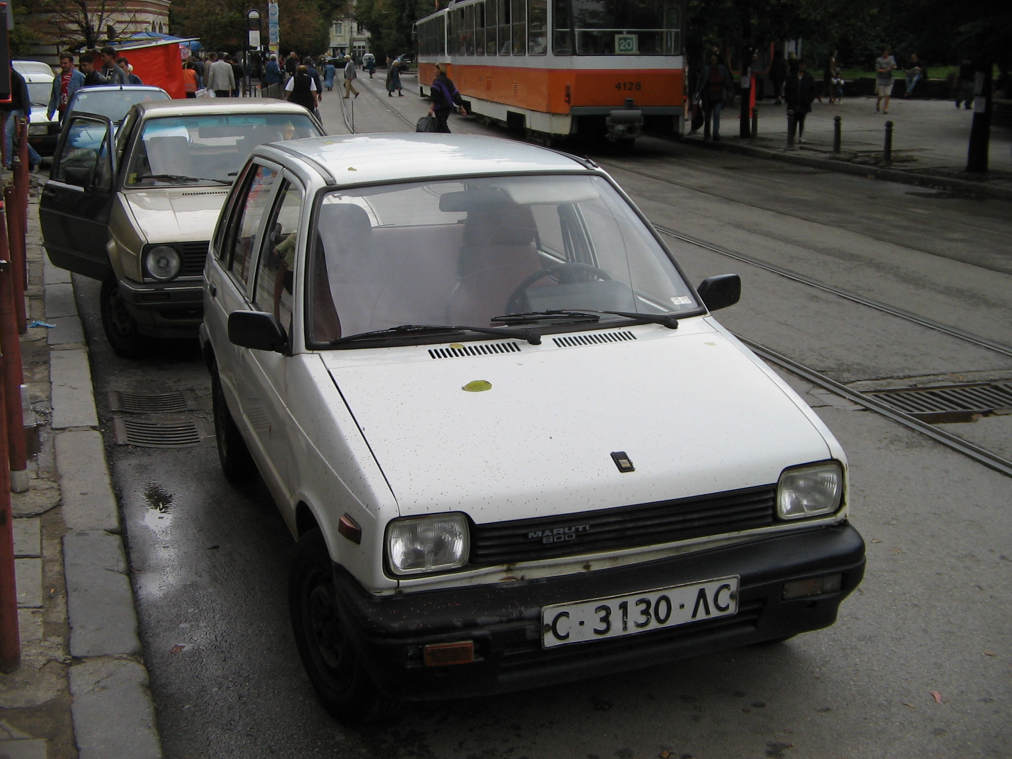 It is not an 'Eastern European car', but it is a Maruti (Suzuki) 800, which has been manufactured under Suzuki licence in India. I confirm that from Sri Lanka, where large numbers of this model has been sold.--124.43.215.46 23:13, 14 March 2008 (UTC)